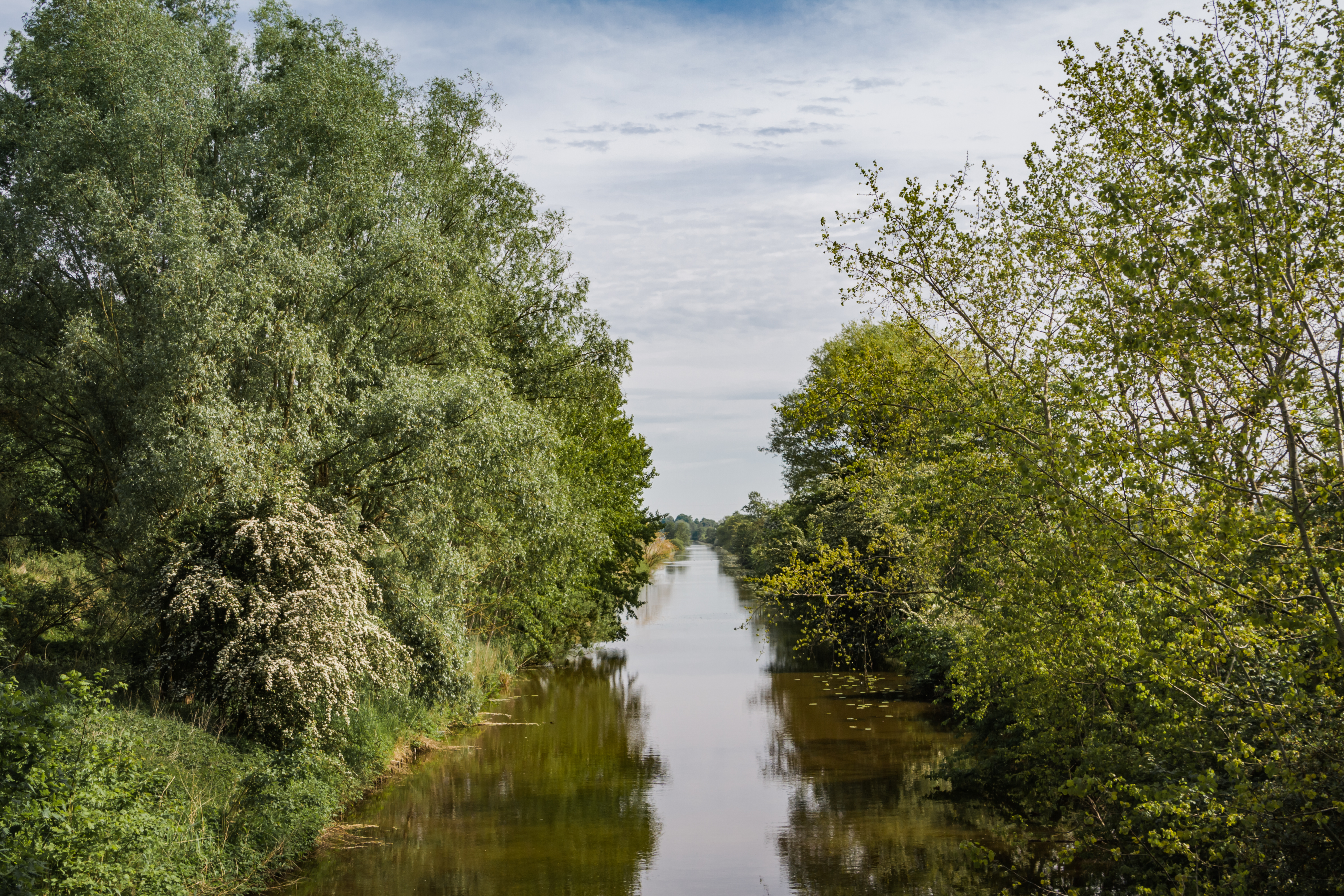 Kuhgraben in Bremen – welcher Abschnitt, welche Blickrichtung? (nördlich/südlich Autobahn?) Schutzgebiet unklar (keines oder verschiedene links/rechts möglich)